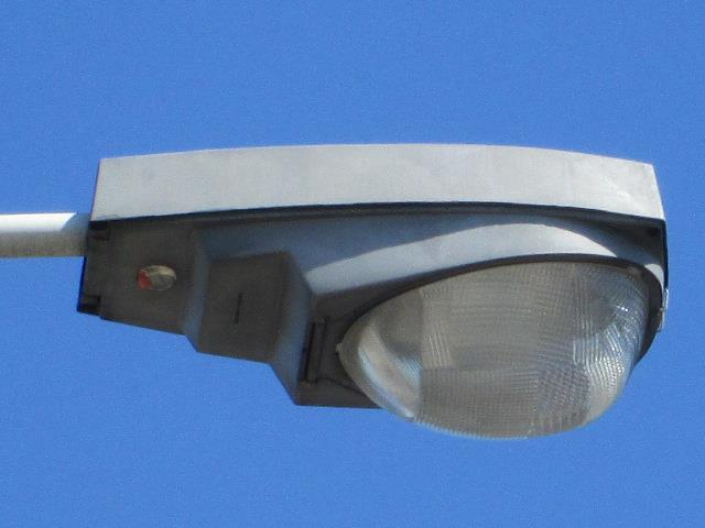 History of street lighting